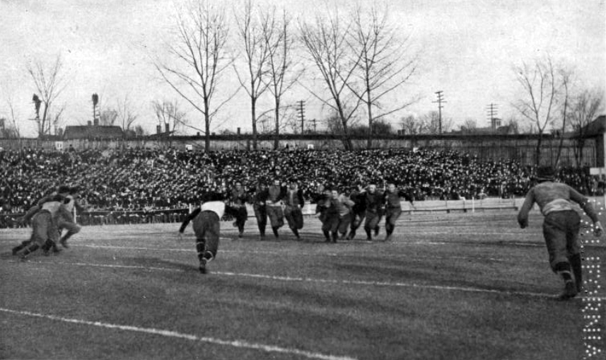 The flying wedge, from "Football - The American Intercollegiate Game", written by Parke H. Davis in 1911.